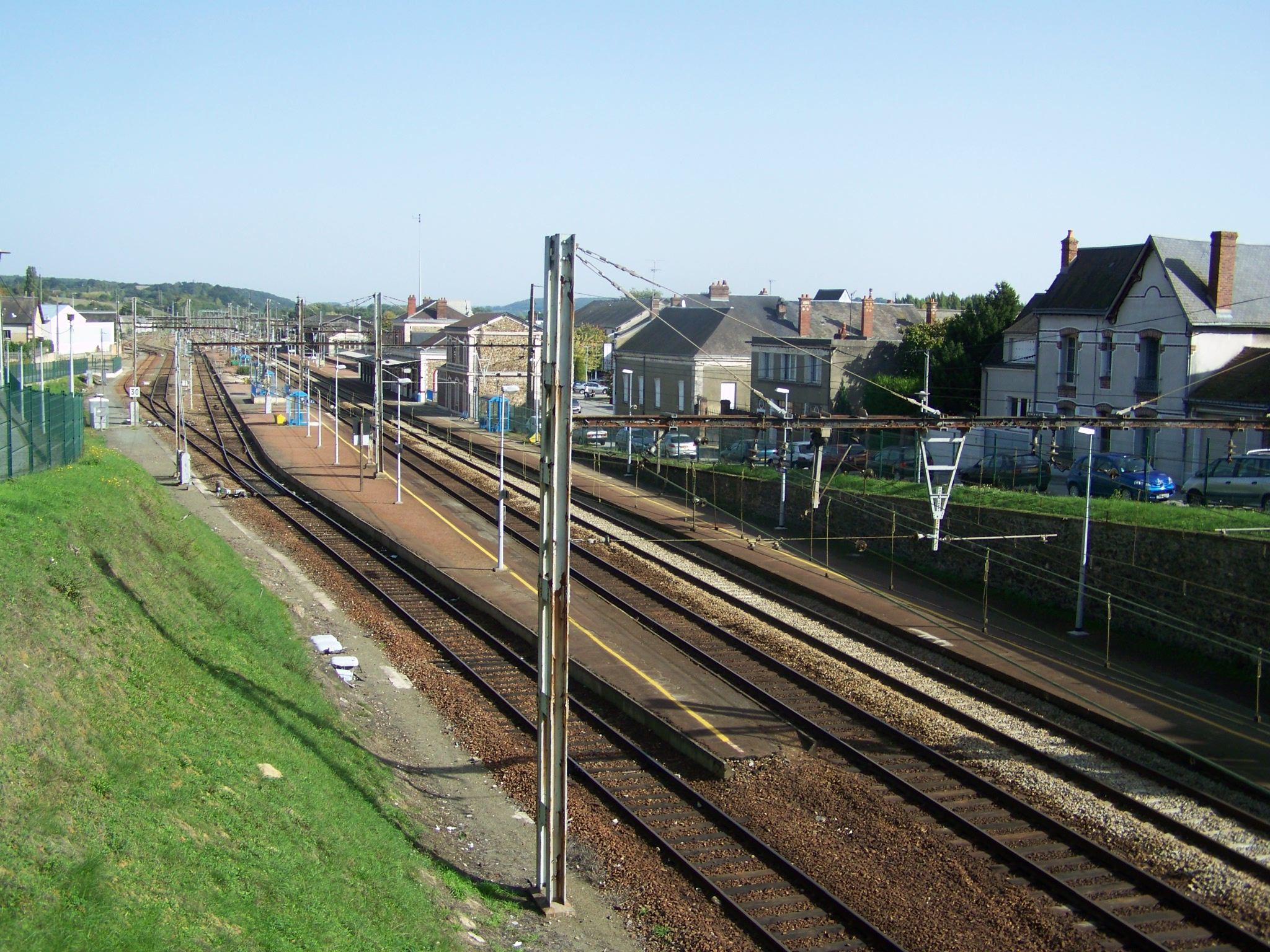 Sight on platforms and tracks of Nogent-le-Rotrou railway station, in the French department of Eure-et-Loir.